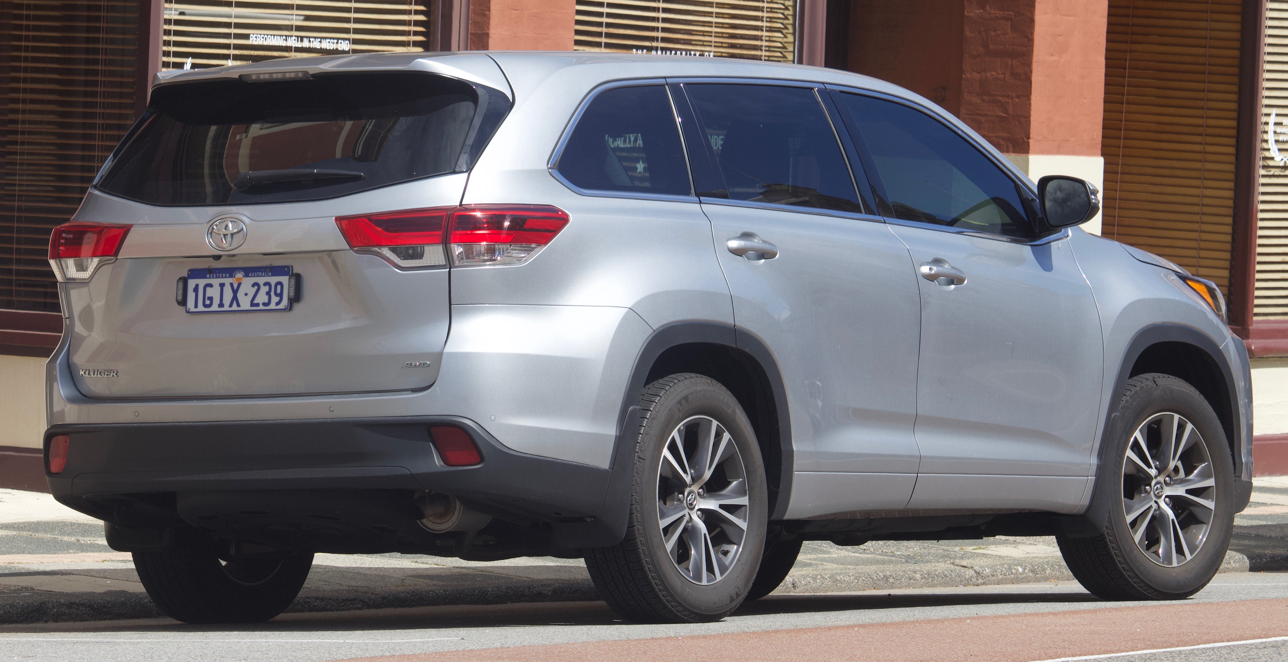 2017 Toyota Kluger (GSU55R) GX wagon. Photographed in Fremantle, Western Australia, Australia.